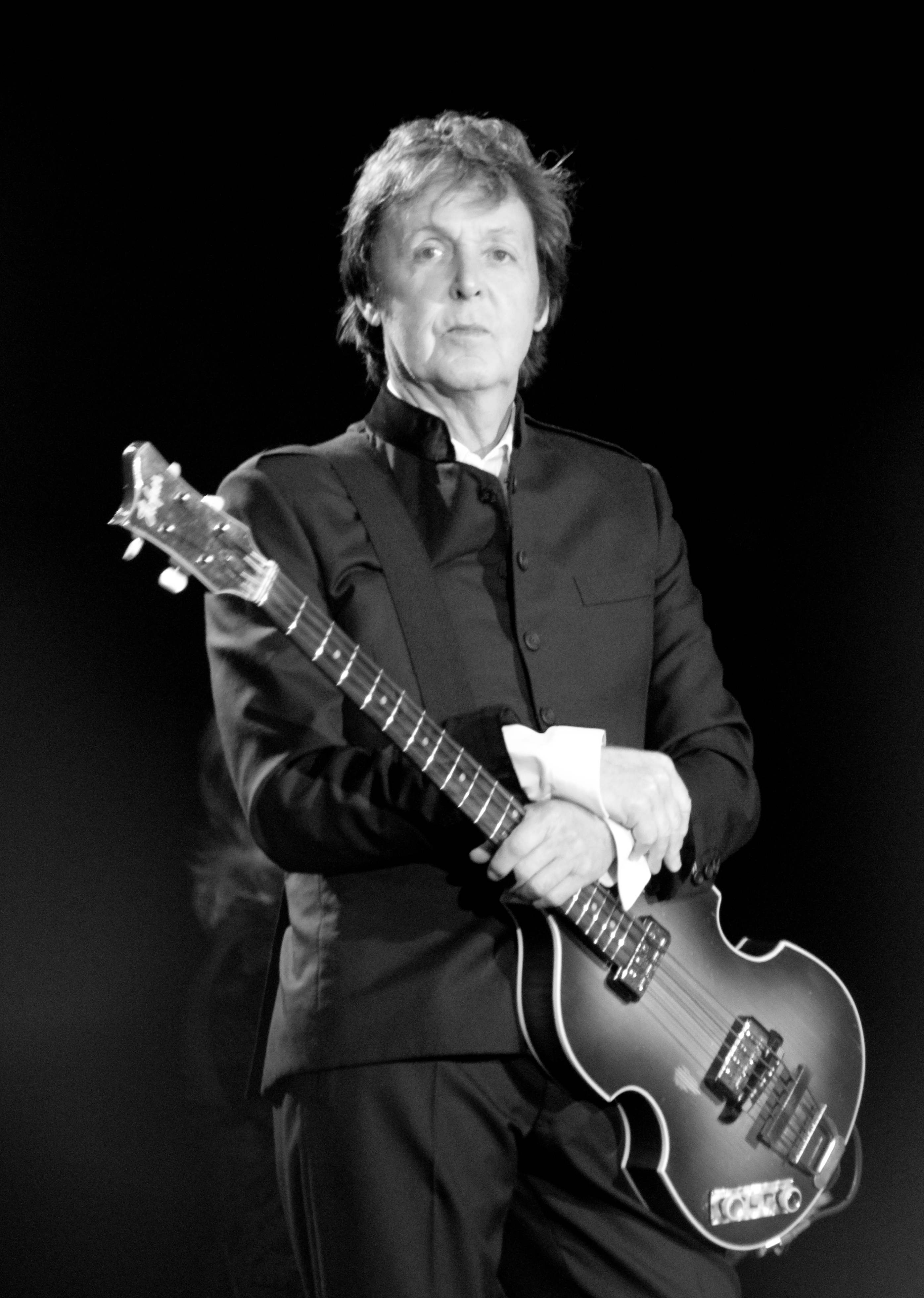 Paul McCartney live in Barton, England on June 13, 2010